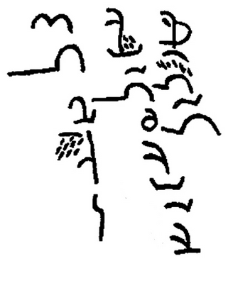 Amargar of Adurbadagan